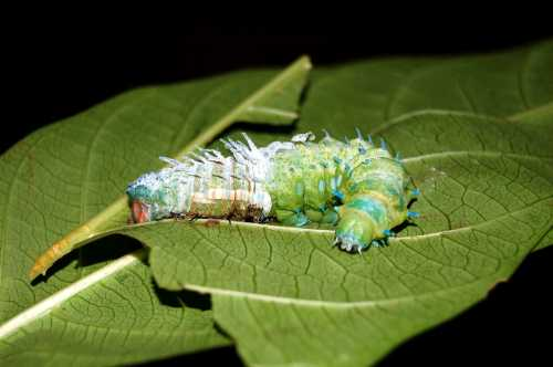 Atlas Moth Cat in Moulting action